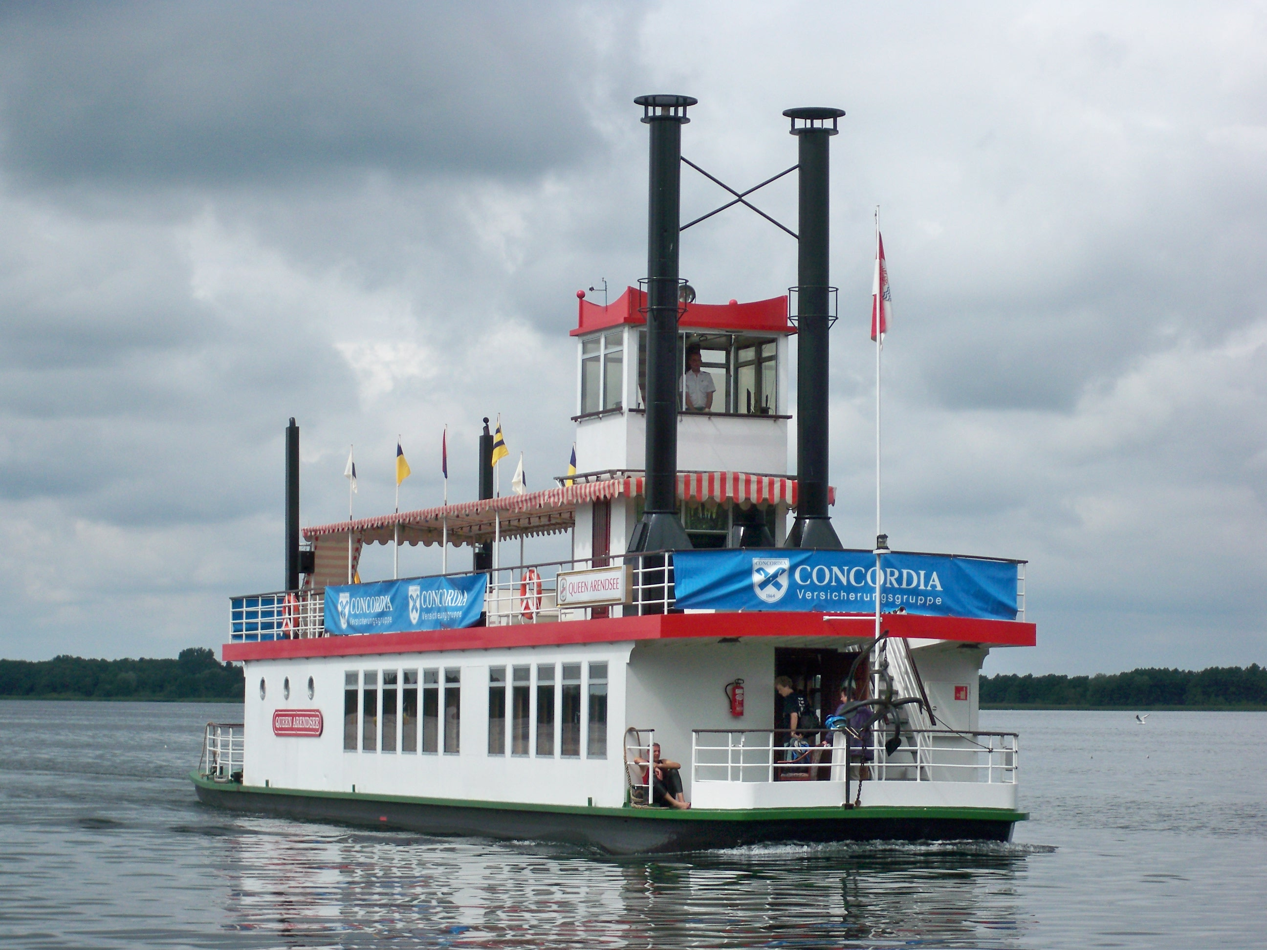 Arendsee, Saxony-Anhalt, MV Queen Arendsee